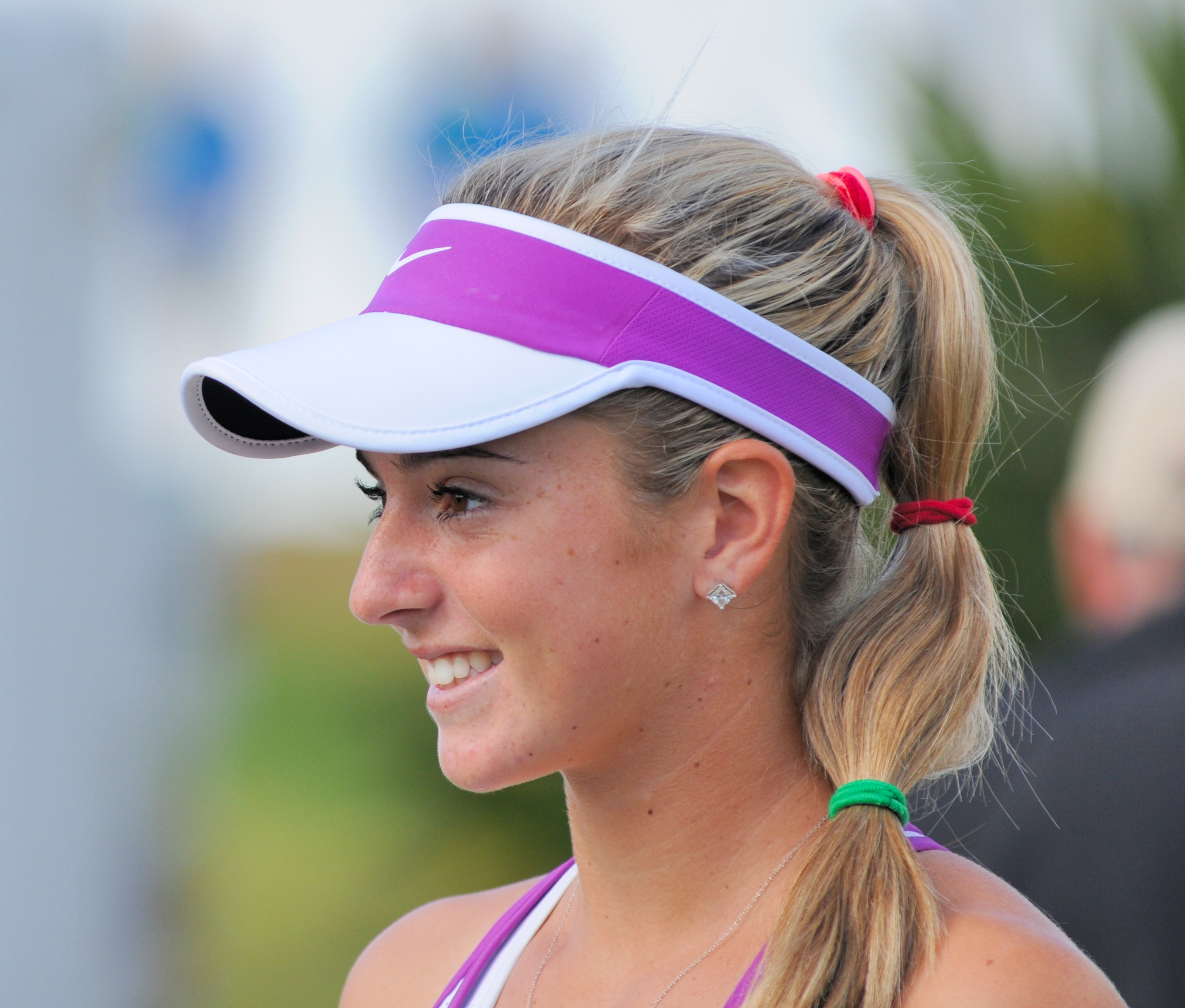 2015 Carlsbad Classic